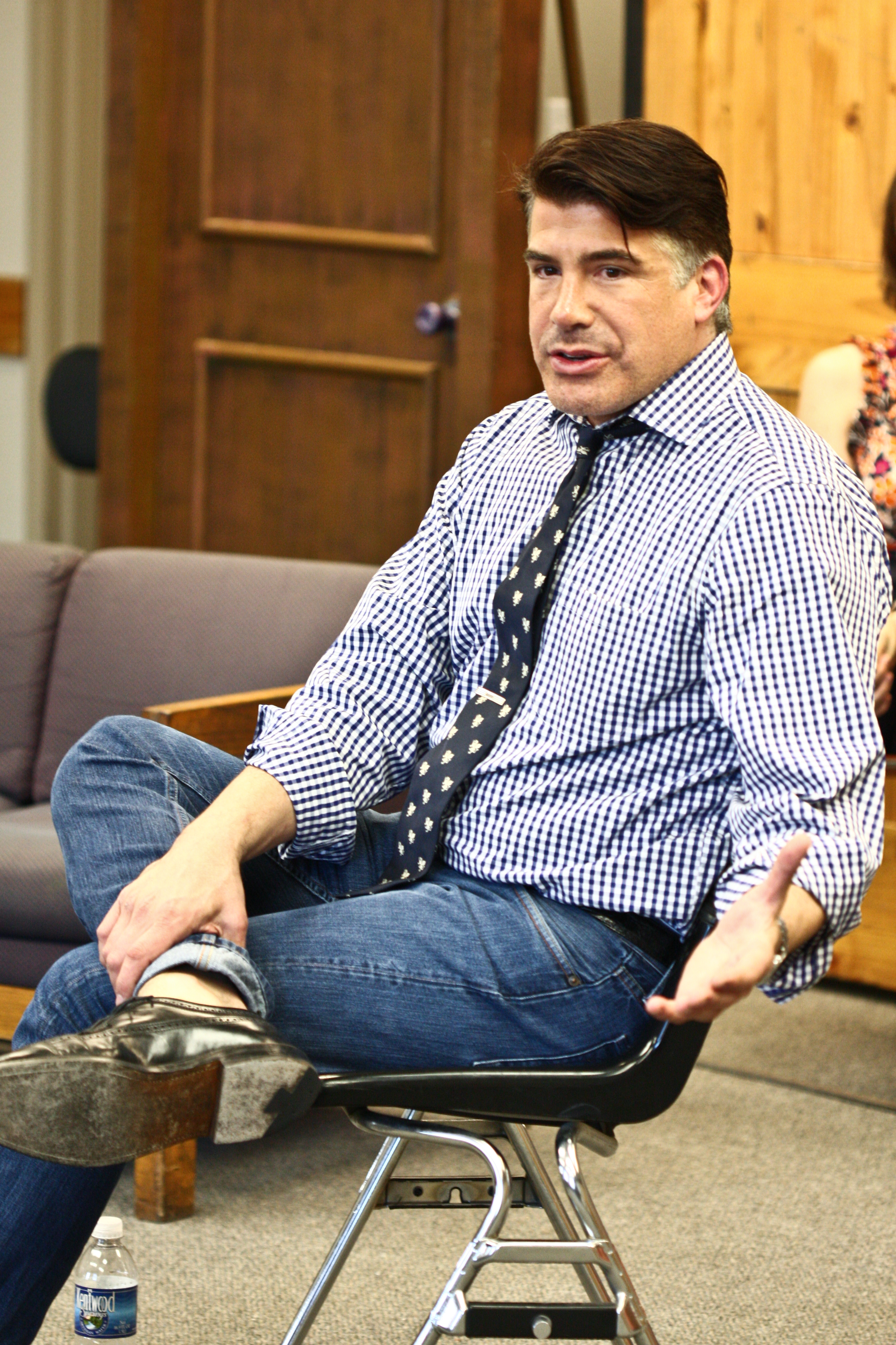 Bryan Batt. Dean's Colloquium, Tulane University. November 16, 2010. Photo by Guillermo Cabrera-Rojo.